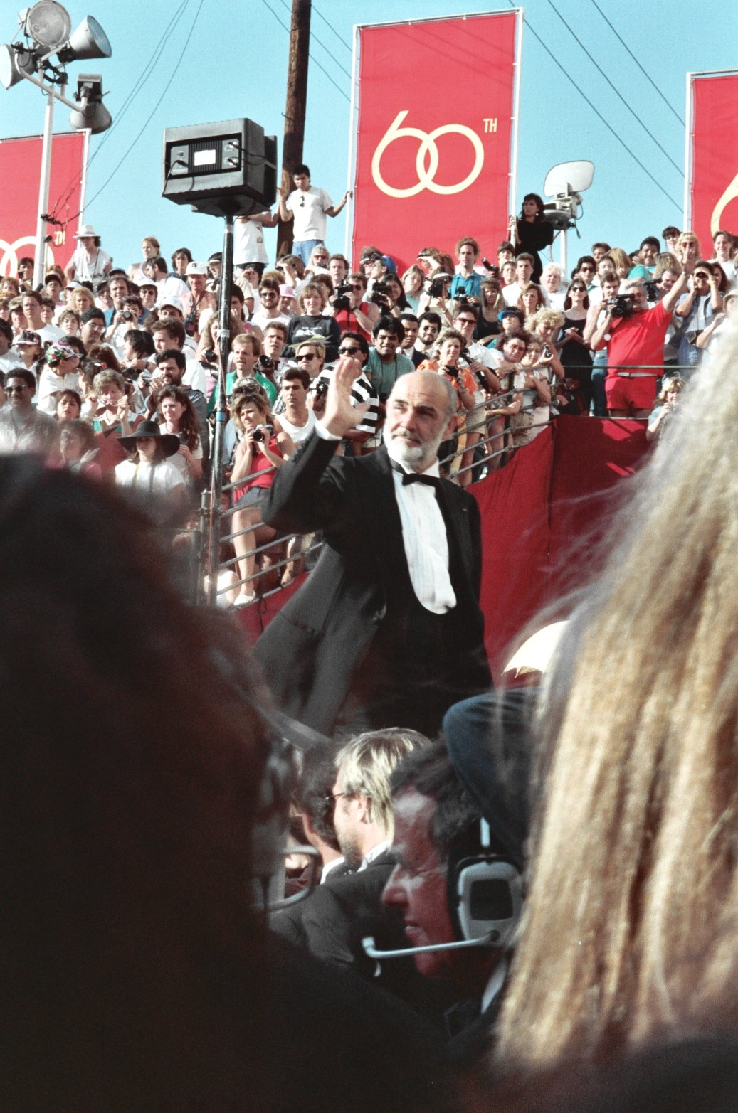 1988 Academy Awards. Scanned from the original 35MM film negative.